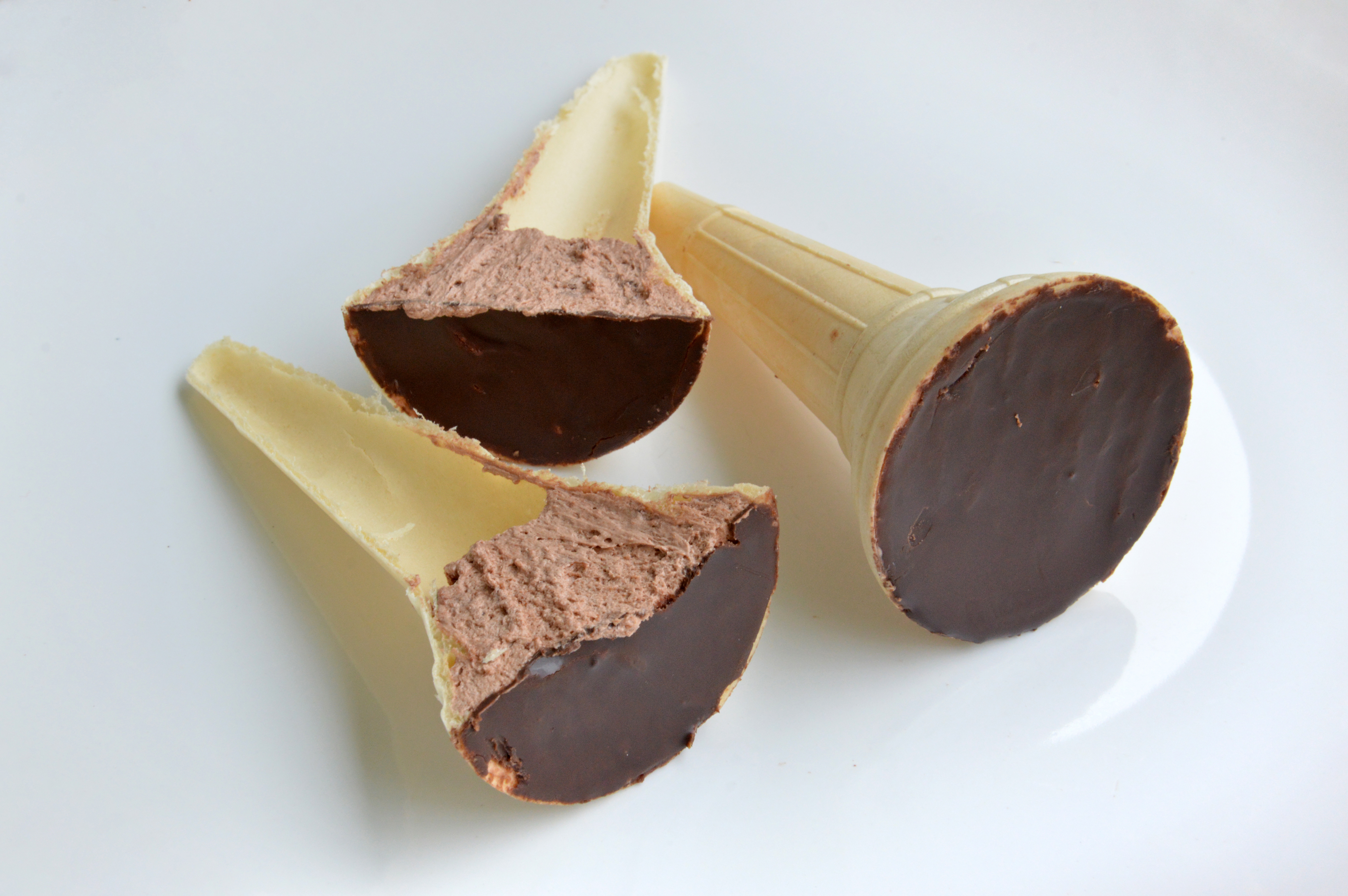 Teli Fagyi (winter ice-cream), a chocolate-flavoured candy (bi-sected) from Hungary.